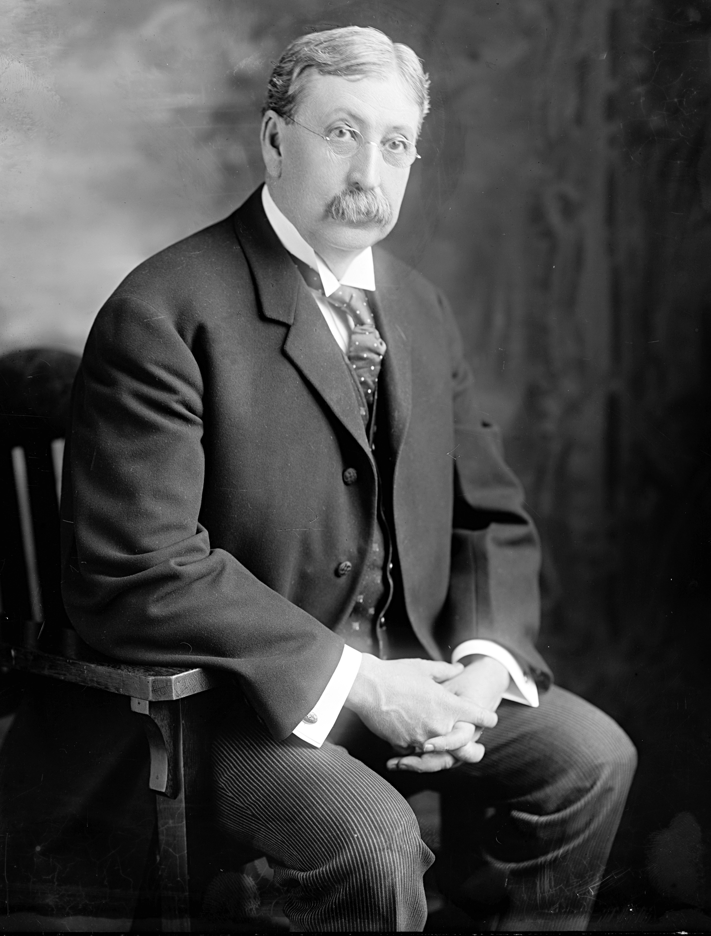 H. Olin Young, US Representative from Michigan